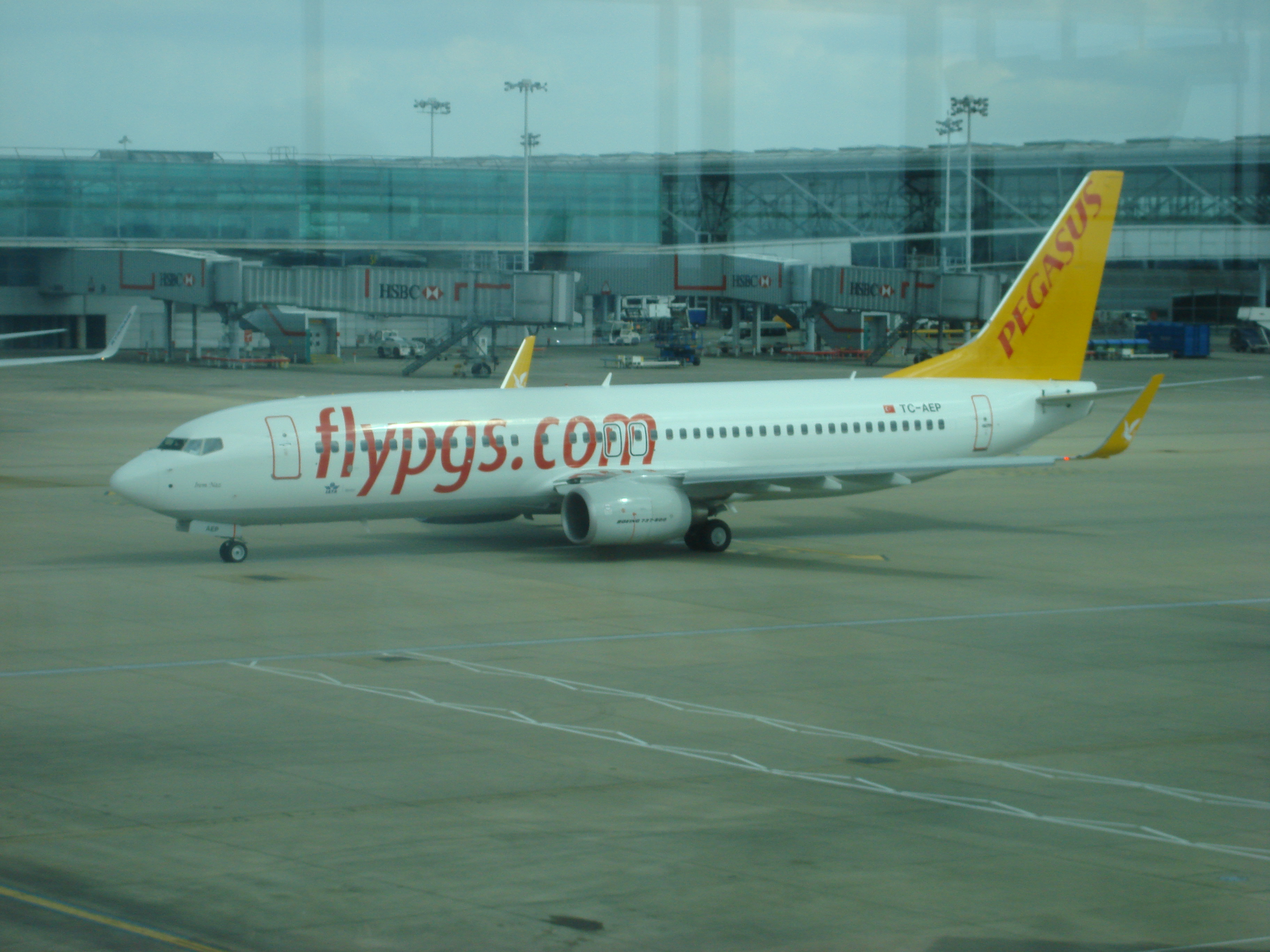 London Stansted Airport